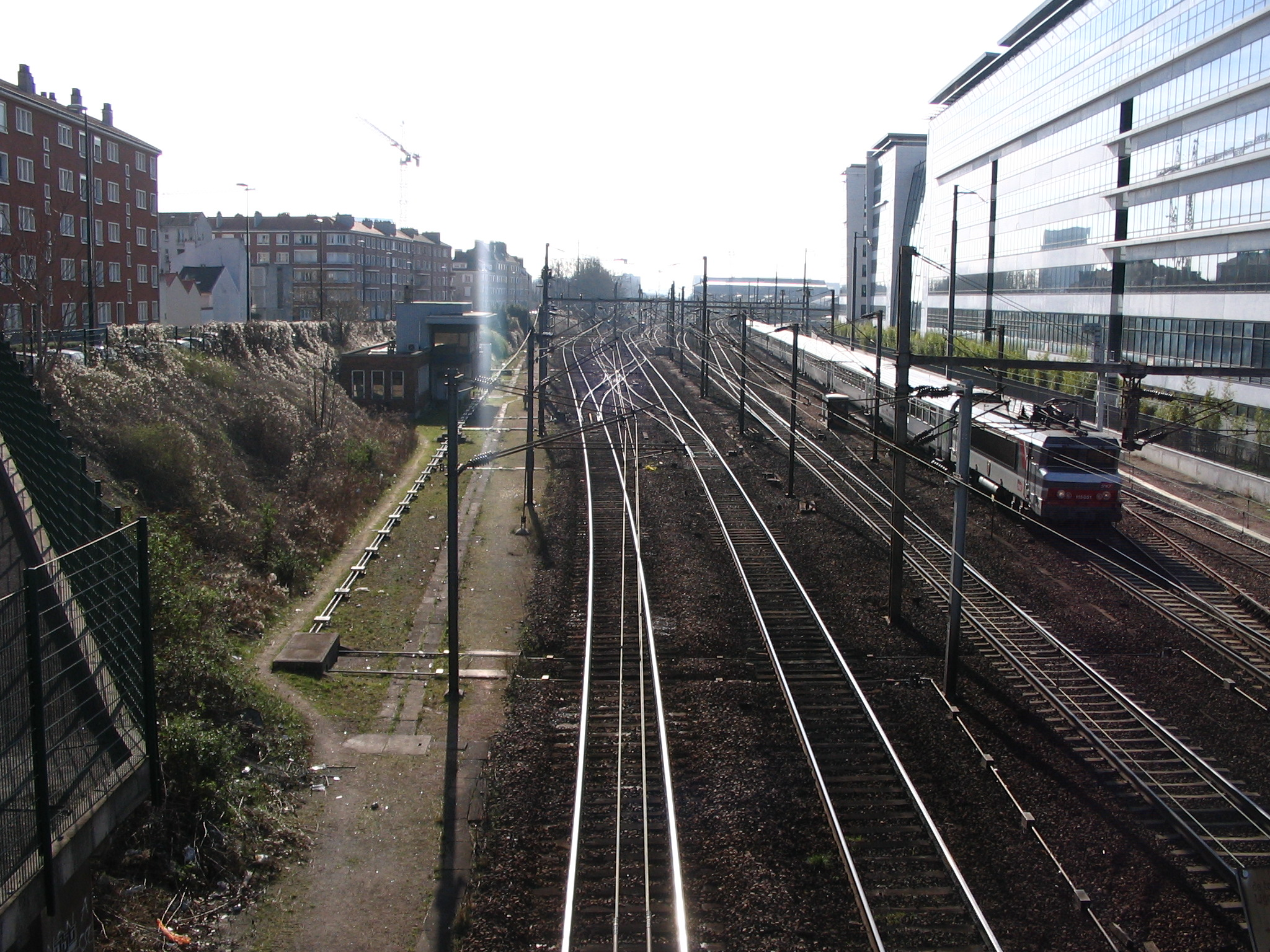 The Paris-Saint-Lazare - Le Havre railway, at the western end of the station of La Garenne-Colombes, in Hauts-de-Seine, France.